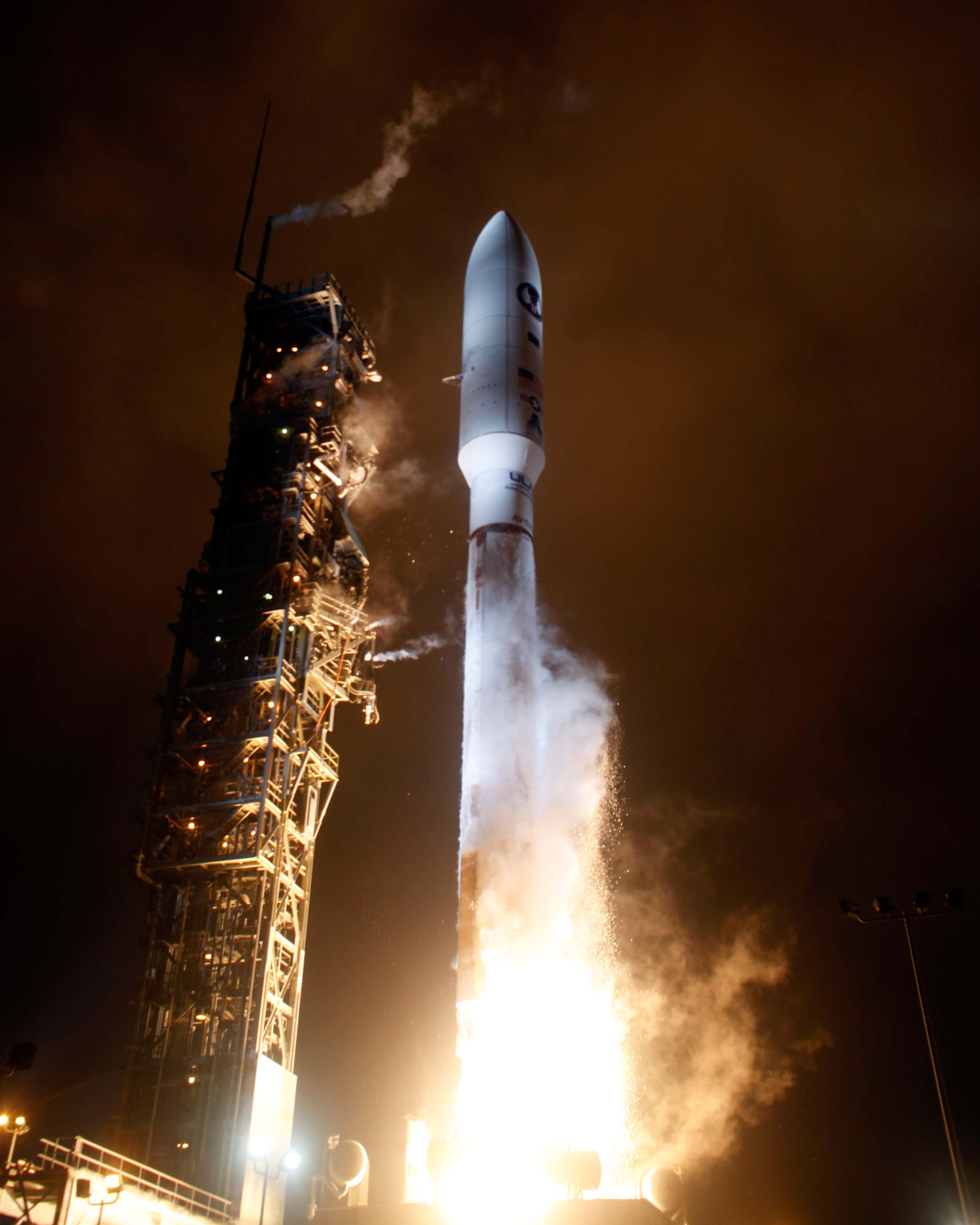 Launch of NROL-41, a suspected Future Imagery Architecture Radar Reconnaissance satellite, aboard a United Launch Alliance Atlas V 501 launch vehicle, was successfully launched from Space Launch Complex-3, Vandenberg Air Force Base (VAFB), California on September 20, 2010.